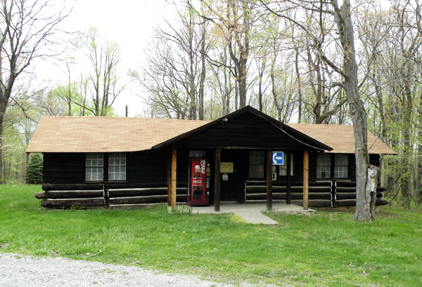 Picture of one of the cabin-style buildings of the Raccoon Creek RDA, located within Raccoon Creek State Park in Hanover Township, Beaver County, Pennsylvania, on April 17, 2010. Built in 1935, the Recreational Demonstration Area is listed as an historic district on the National Register of Historic Places. The building pictured here may be the same building as the one that can be seen in this picture, which was presumably taken in 1935 or 1936.